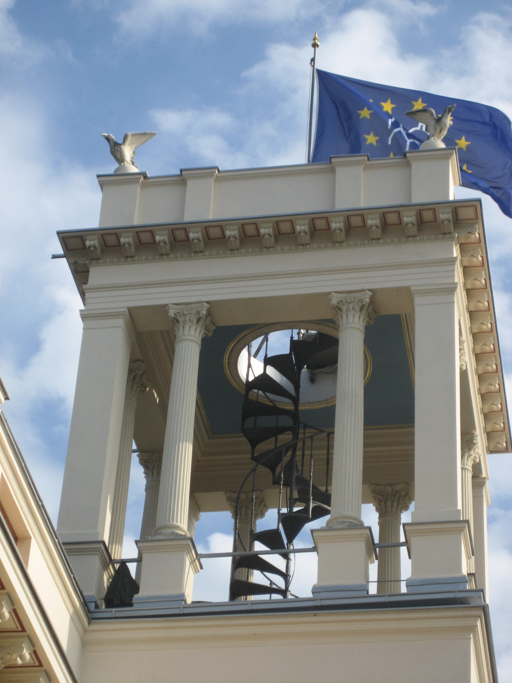 Zinnitz castle, tower with flag